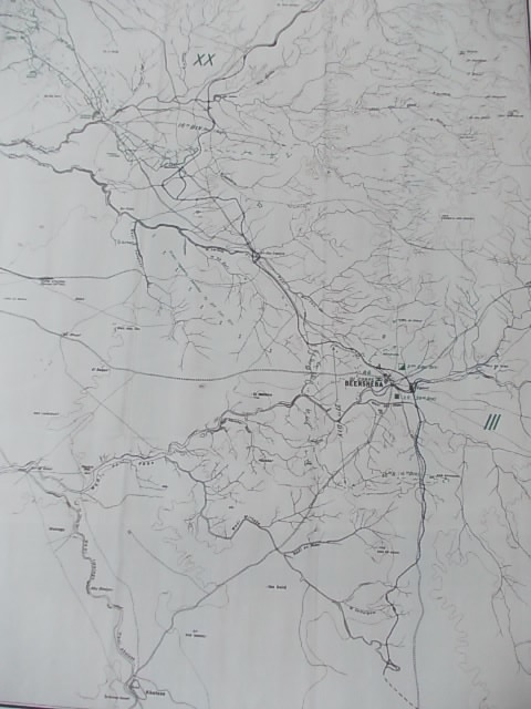 Falls Map 4 Other information Crown copyright